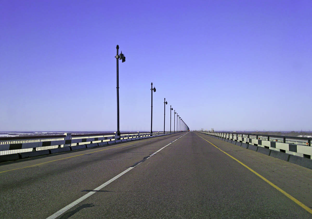 Bridge across the Amur river near Khabarovsk, Russia Far east.